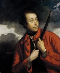 Portrait of Lieutenant-General James Inglis Hamilton of Murdostoun House, Lanarkshire